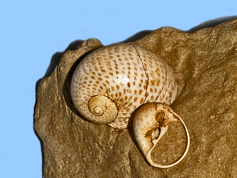 Fossil of Notocochlis tigrina from Pliocene of Italy, on display at the Museo Paleontologico Giulio Maini, Ovada